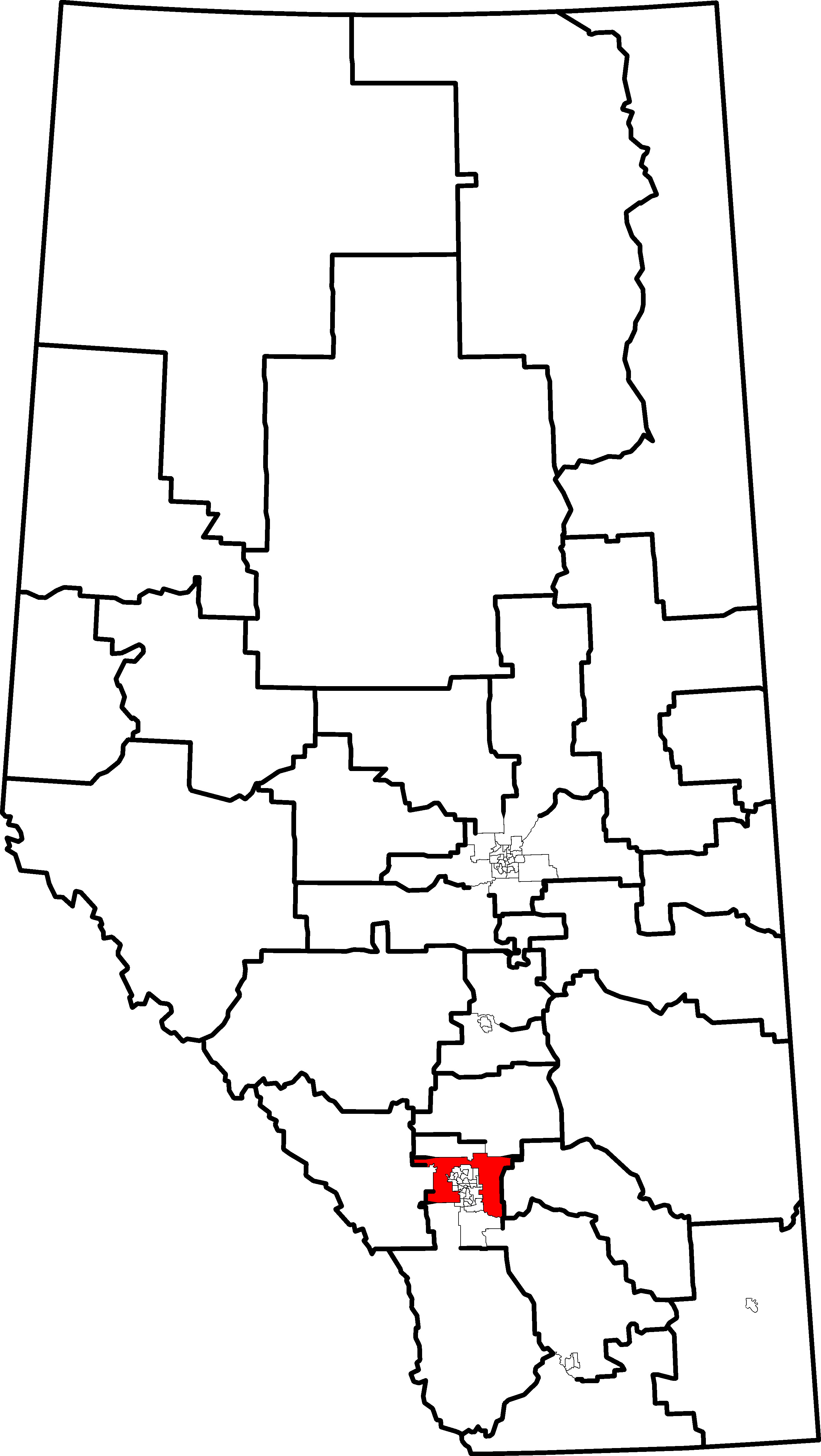 A map of the Alberta provincial electoral districts, effective 2010. Chestermere-Rocky View is highlighted in red.